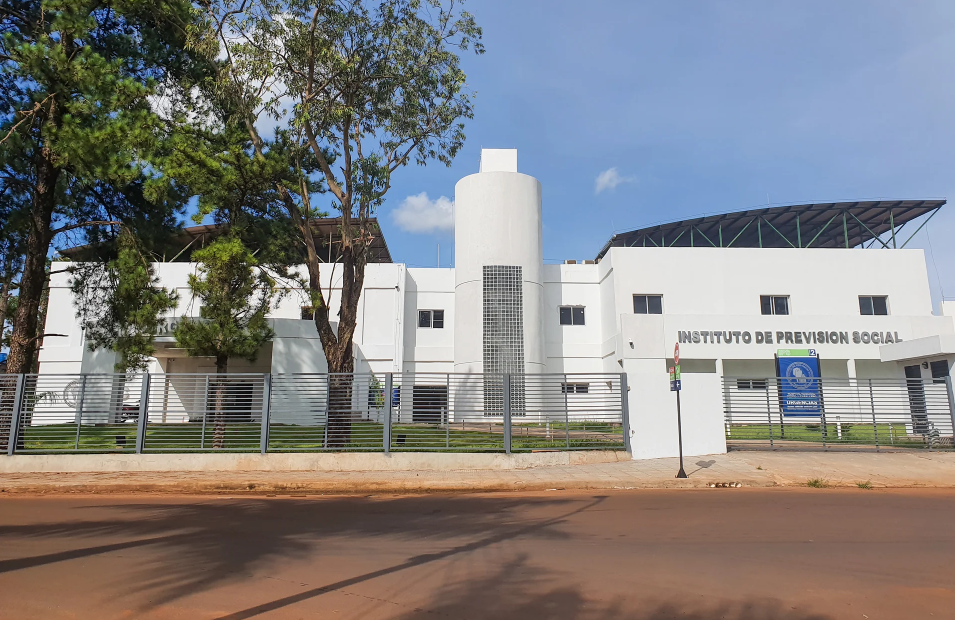 Instituto de Previsión Social in Pedro Juan Caballero (IPS PJC)